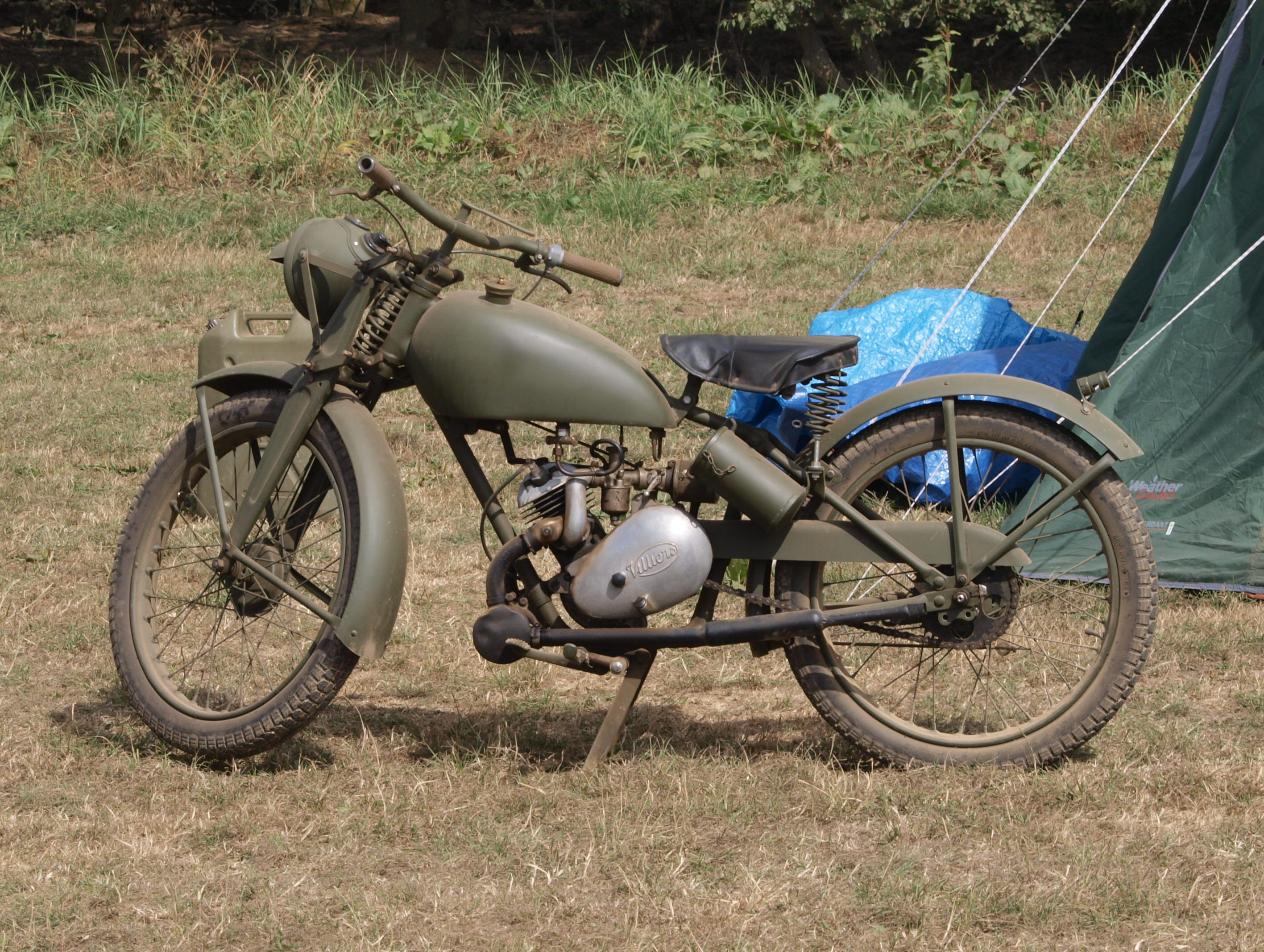 Photographed at the War & Peace show.